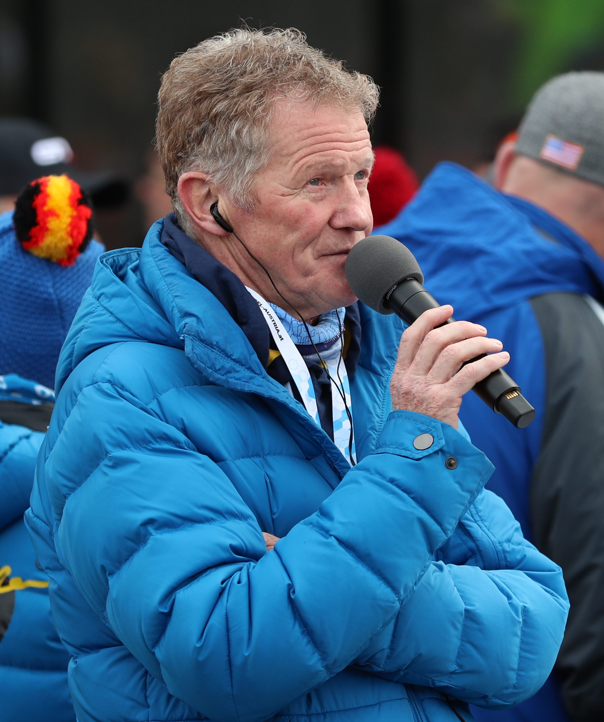 Men's World Cup race at the 2018/19 Luge World Cup in Innsbruck-Igls